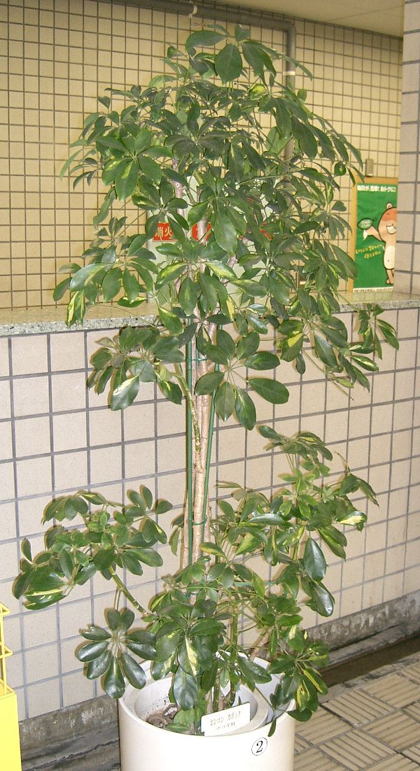 Schefflera arboricola